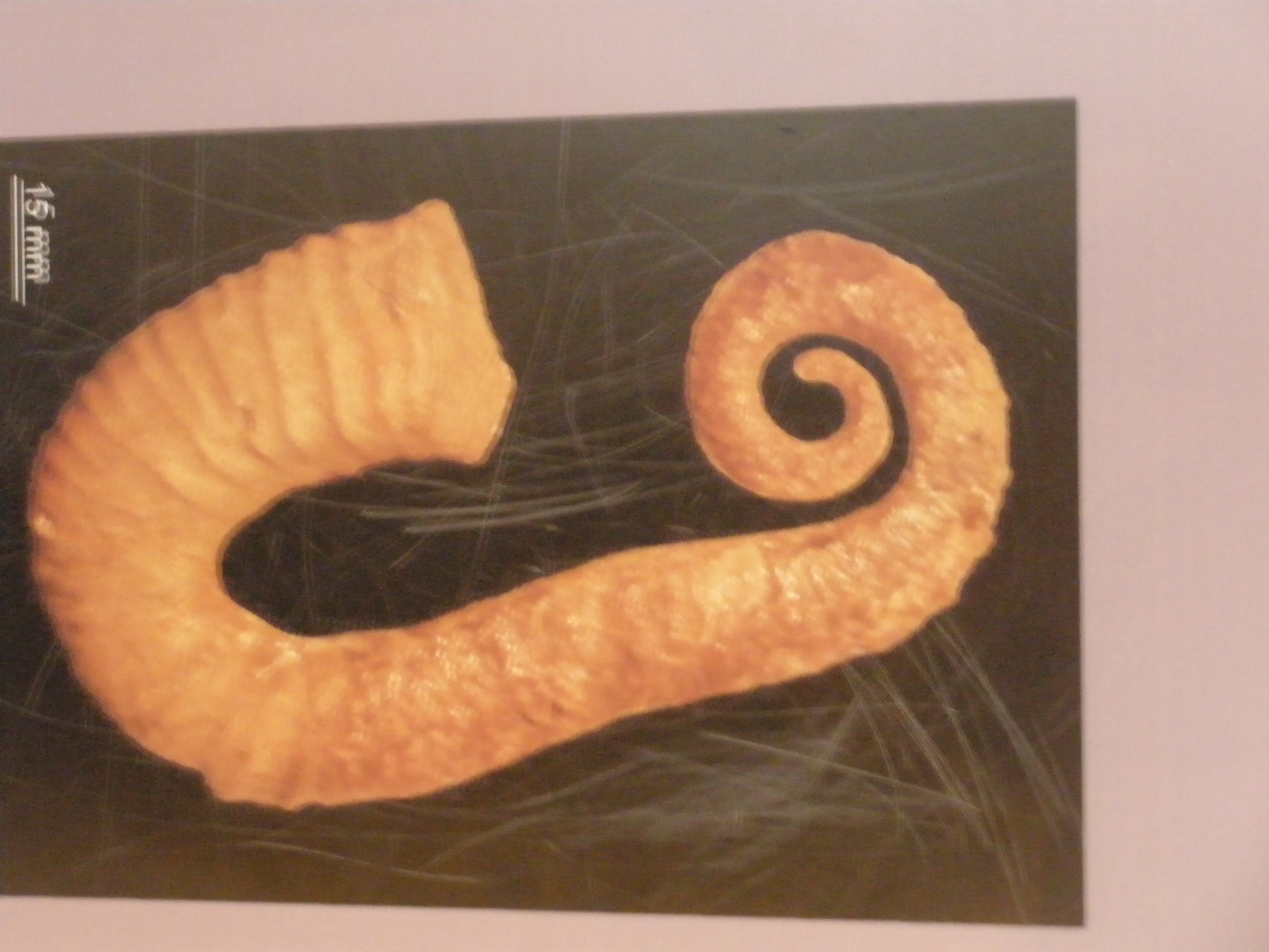 Illustration of a fossil Ancyloceras species ammonoid